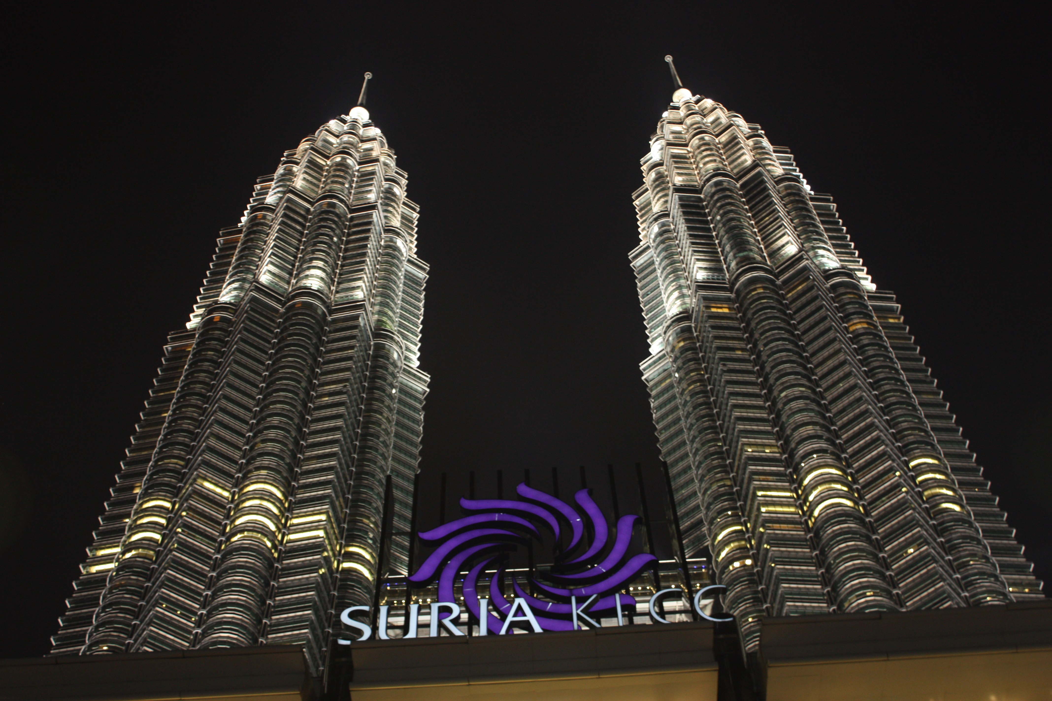 Photo of Suria KLCC Logo with the Petronas Twin Towers taken by Wolfgang Holzem /